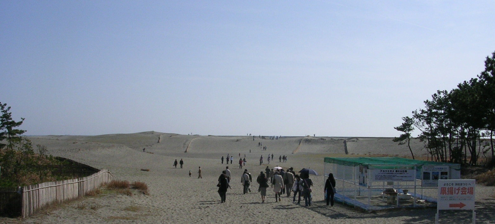 The view of Nakatajima Sand Dunes in Shizuoka Prefecture, Hamamatsu, Japan. It is said to be one of Japan's 3 biggest sand dune areas.